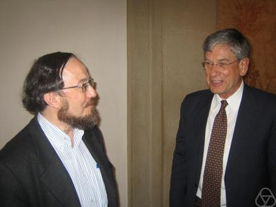 Mathematicians Don Zagier (left) and Max-Albert Knus (right) at the celebration of the 90th birthday of Beno Eckmann in Zürich, 2007.